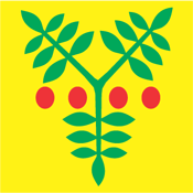 Saarde valla lipp (1994–2005)